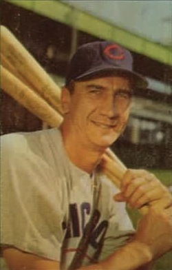 Chicago Cubs outfielder Hank Sauer.